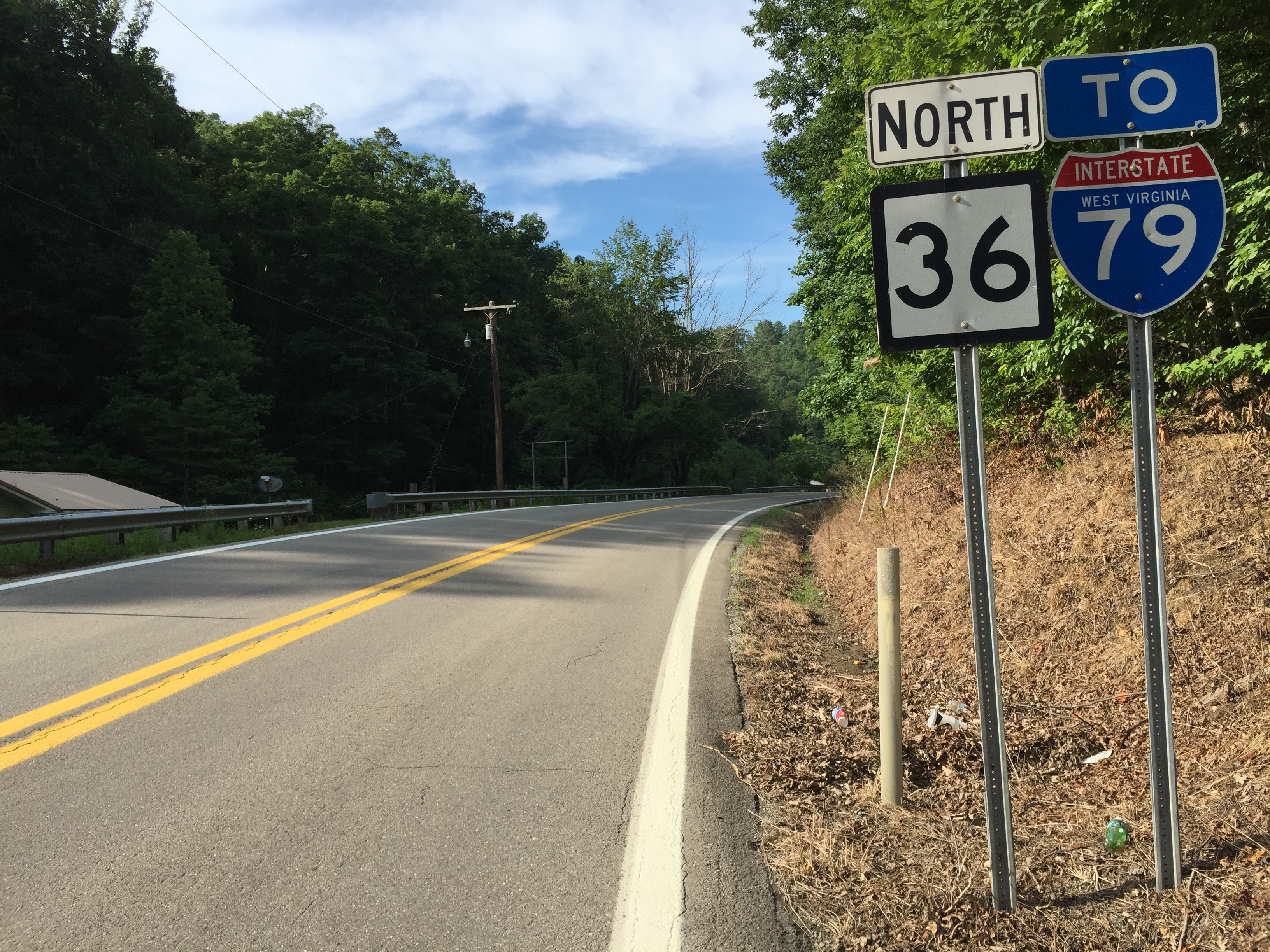 View north along West Virginia State Route 36 (Wallback Road) at West Virginia State Route 4 in Maysel, Clay County, West Virginia